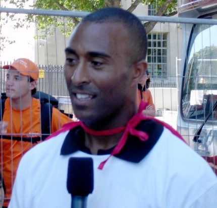 Welsh British sprinter and hurdling athlete Colin Jackson at Sport Relief 2006 in LondonColin Jackson